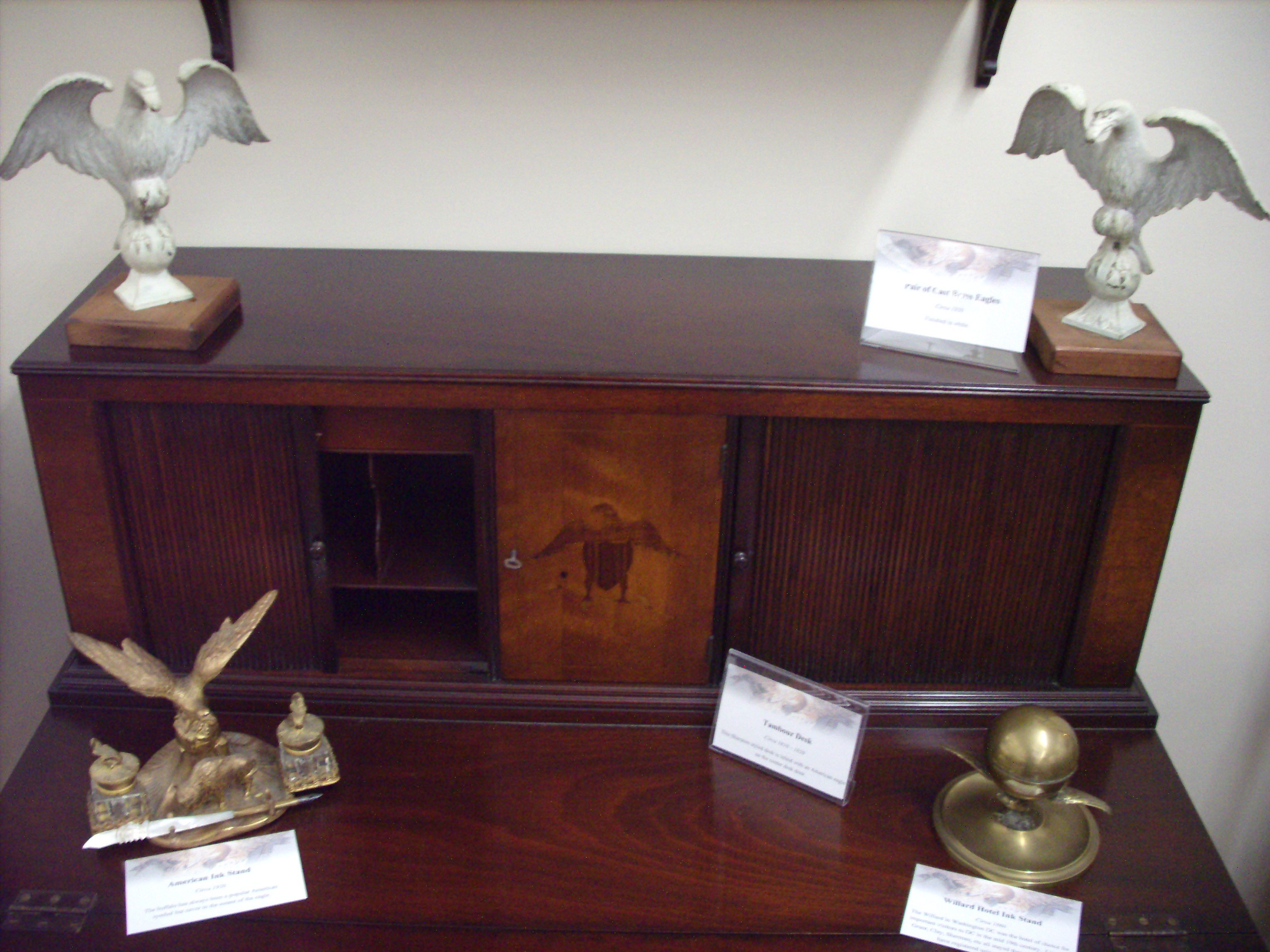 Circa 1810-1820 This Sheraton styled desk is inlaid with an American eagle on the center desk door.